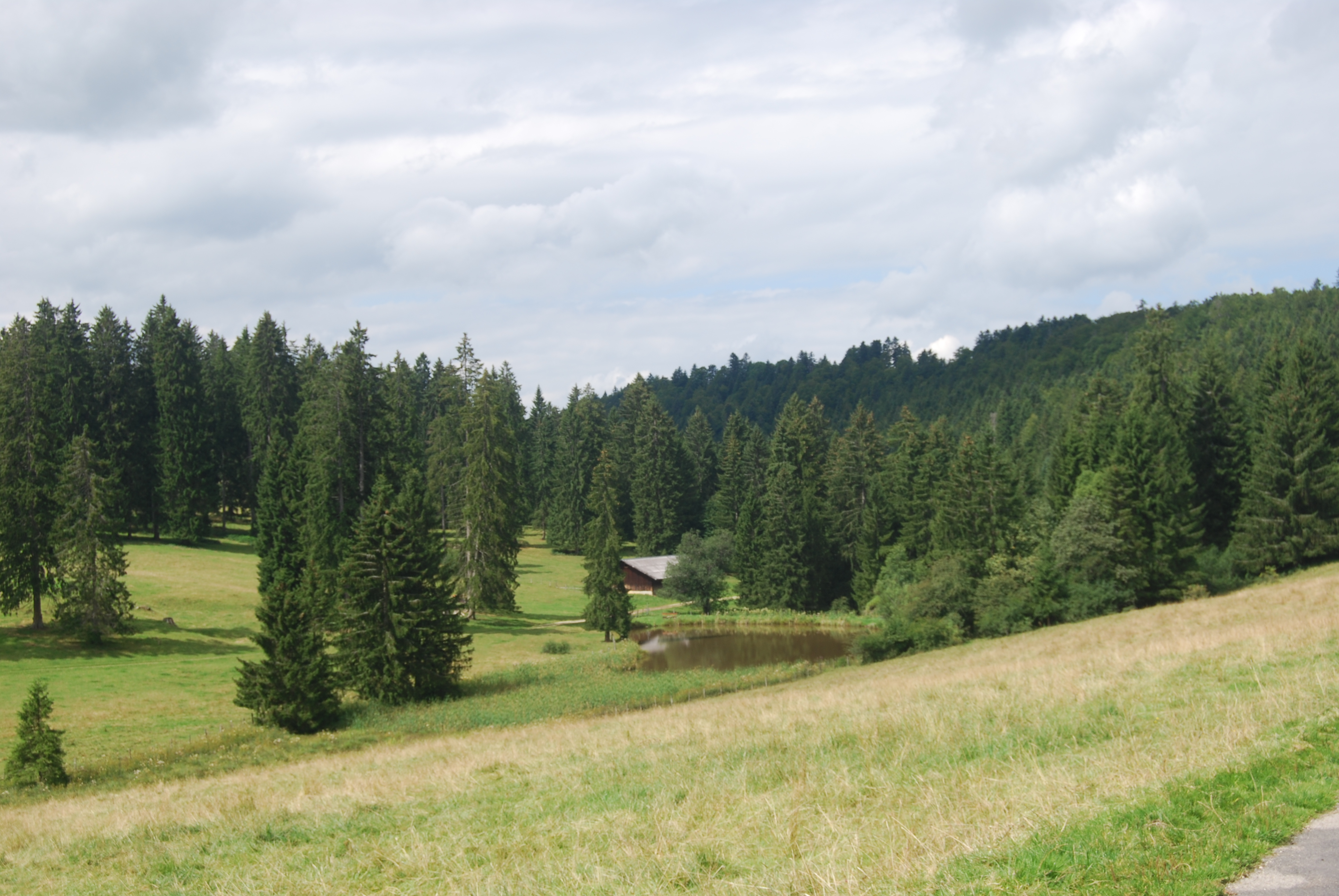 Pond in the Franches-Montagnes near Lajoux (Etang Sous le Crât), canton of Jura, Switzerland